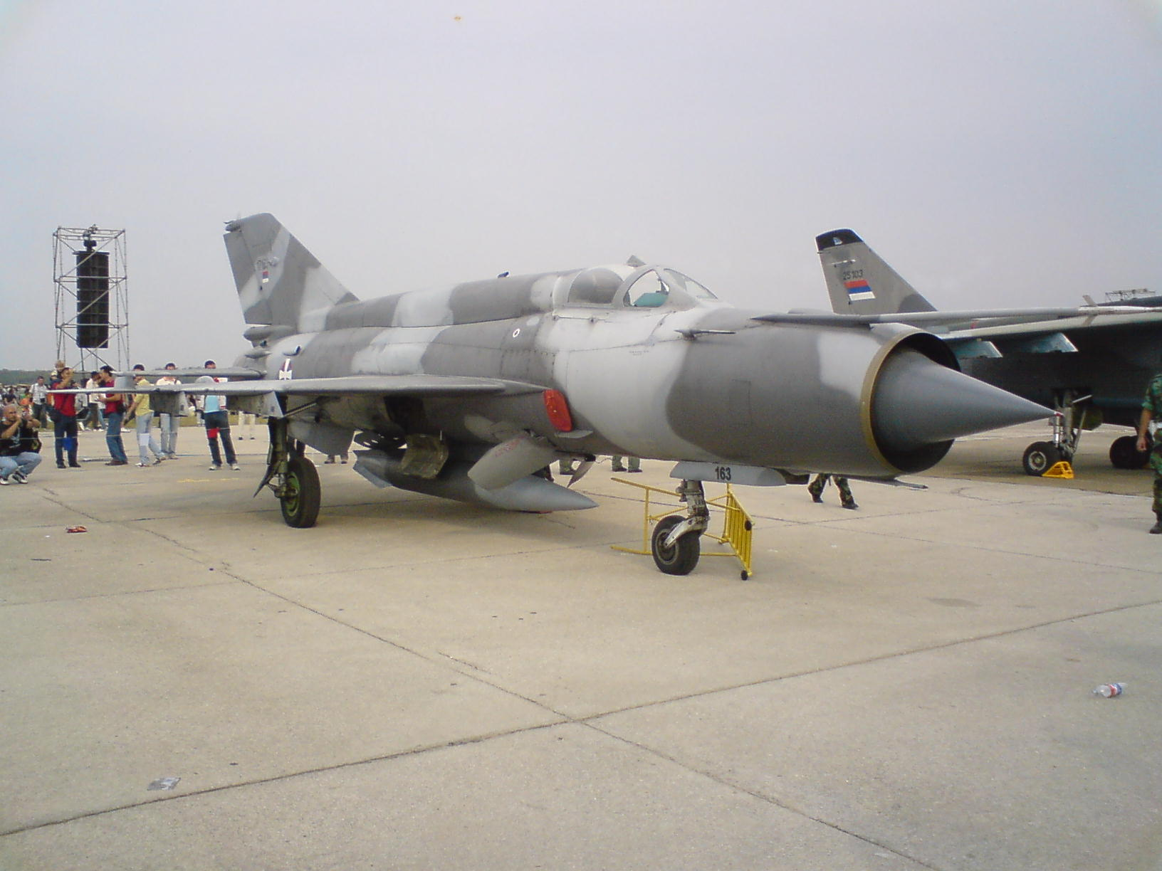 MiG-21 of SAF